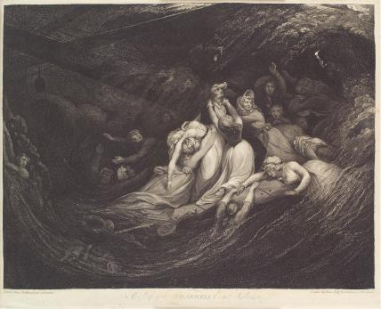 The loss of the Halsewell East Indiaman (6 January 1786) by James Gillray ((13 August 1756 – 1 June 1815))